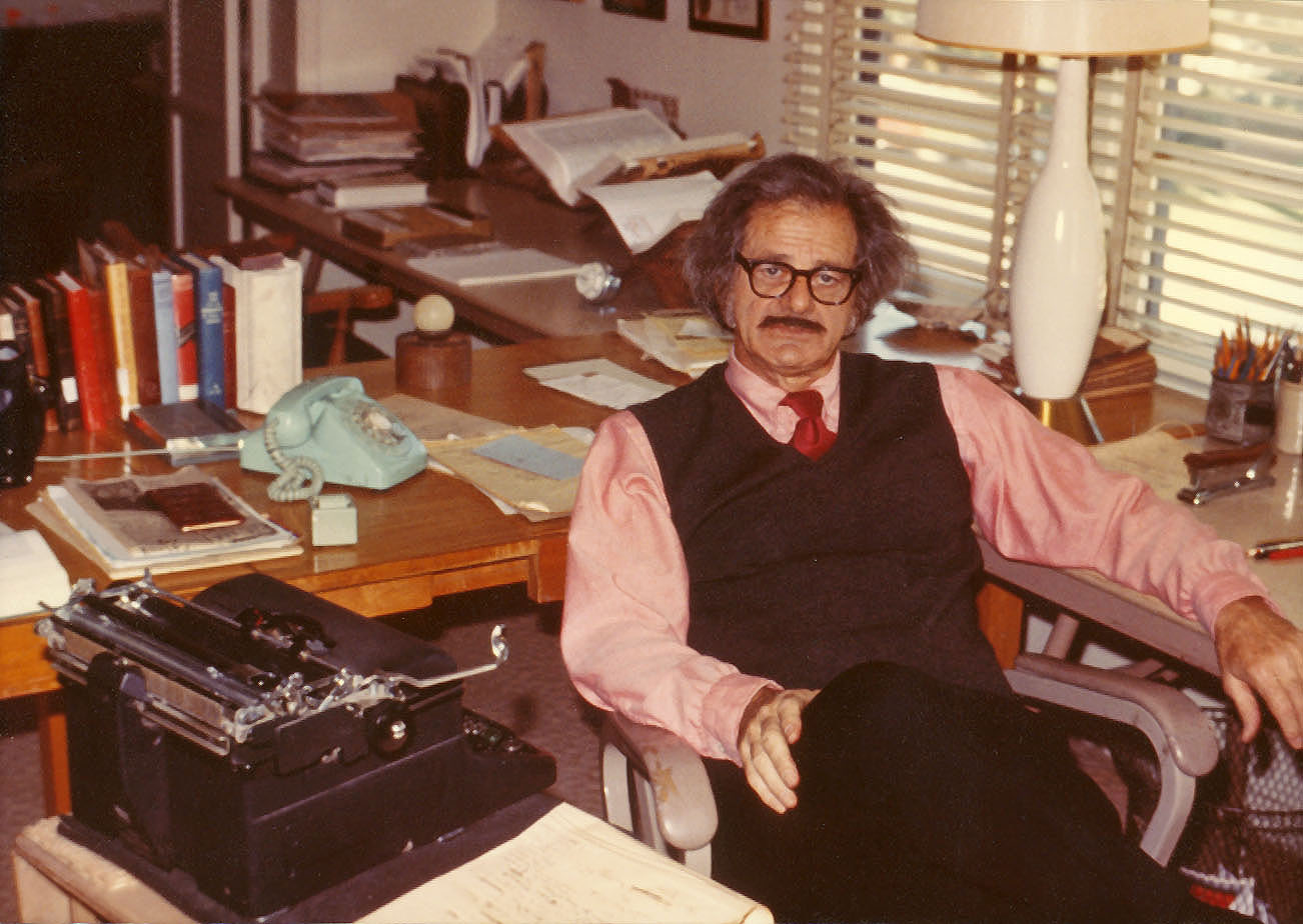 At Norman Corwin's Wellworth Ave., Los Angeles apartment.